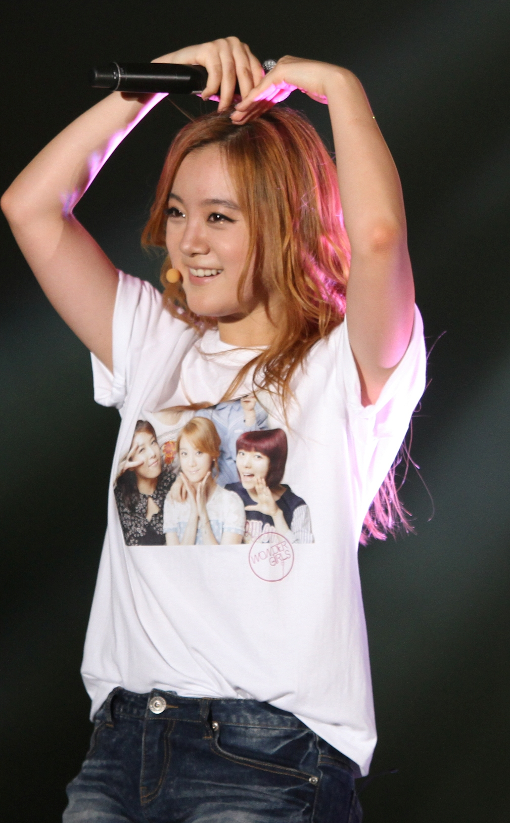 Hyelim performing on Wonder World tour in September 2012